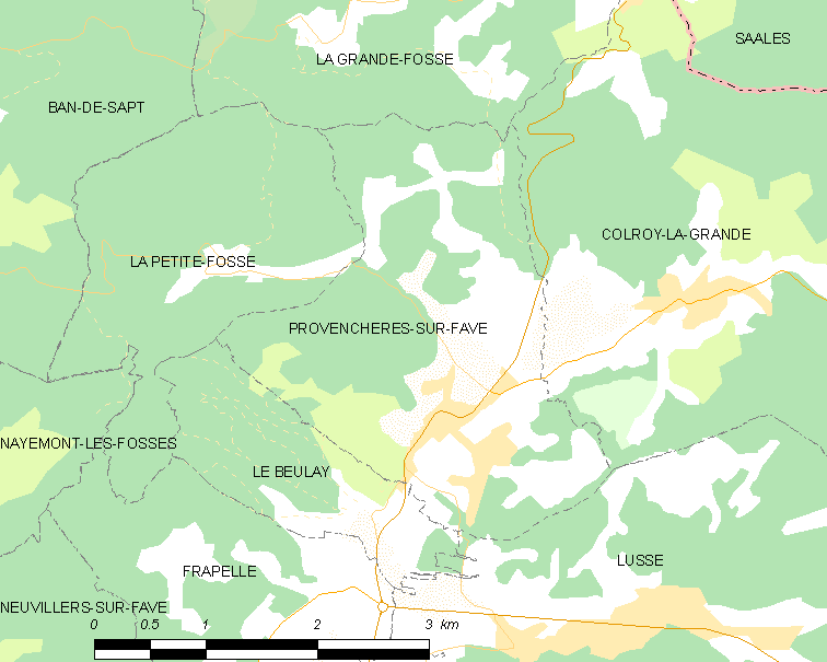 Map of French municipality Provenchères-sur-Fave